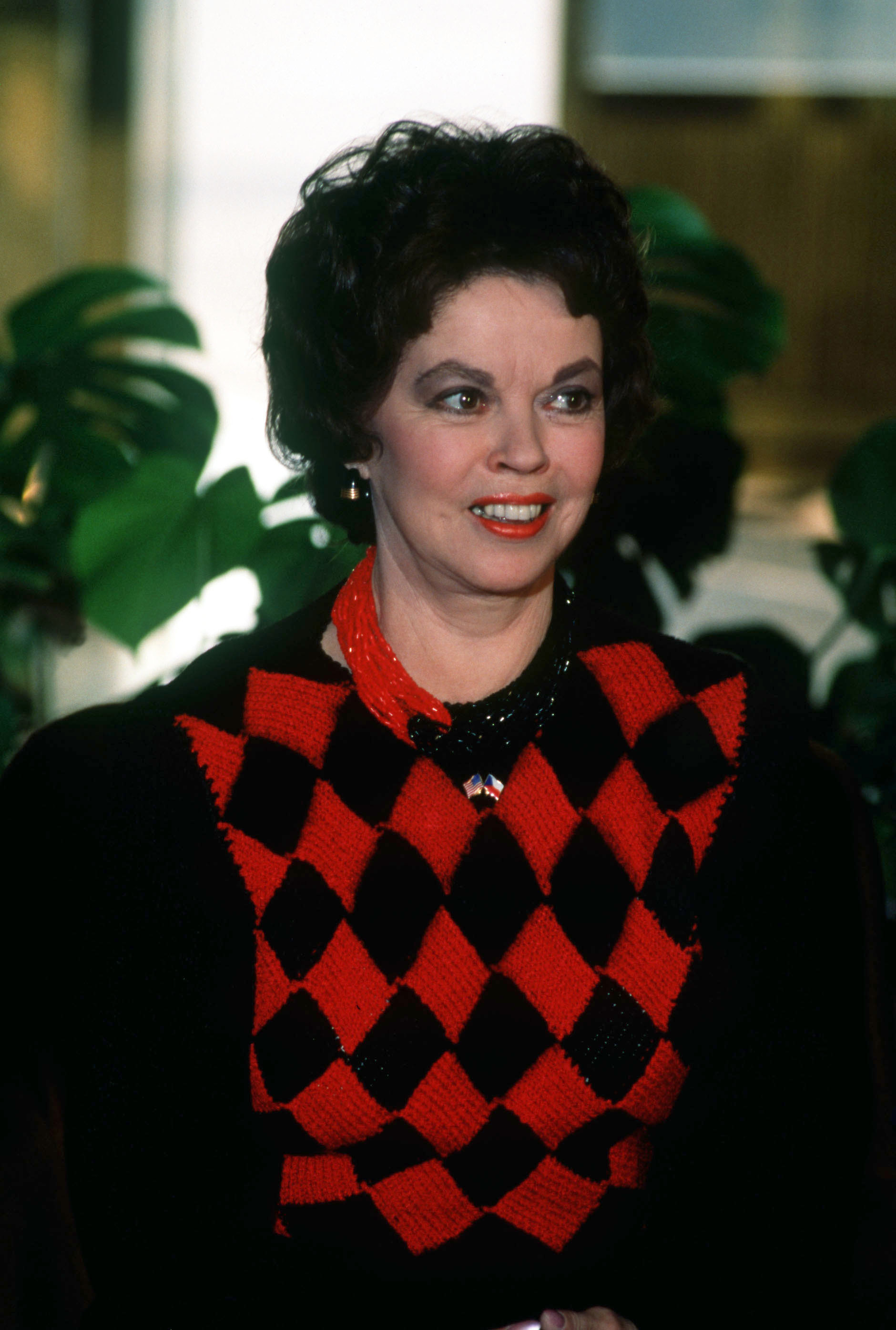 Shirley Temple Black in Prague in 1990, Czechoslovakia.